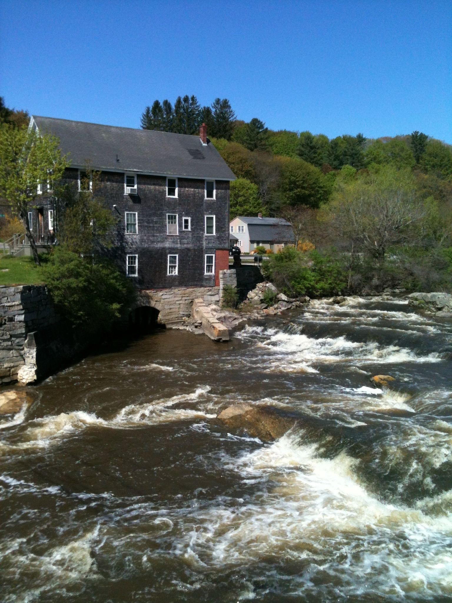 1 Main Street, Yarmouth, Maine